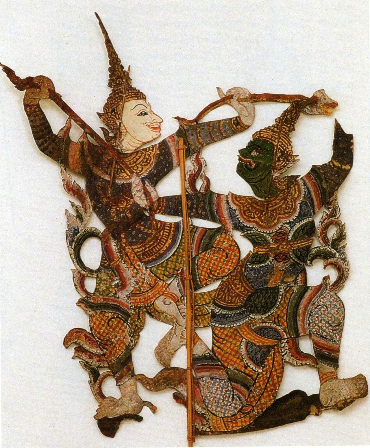 Nang rabam. Thai shadow play at dayligt